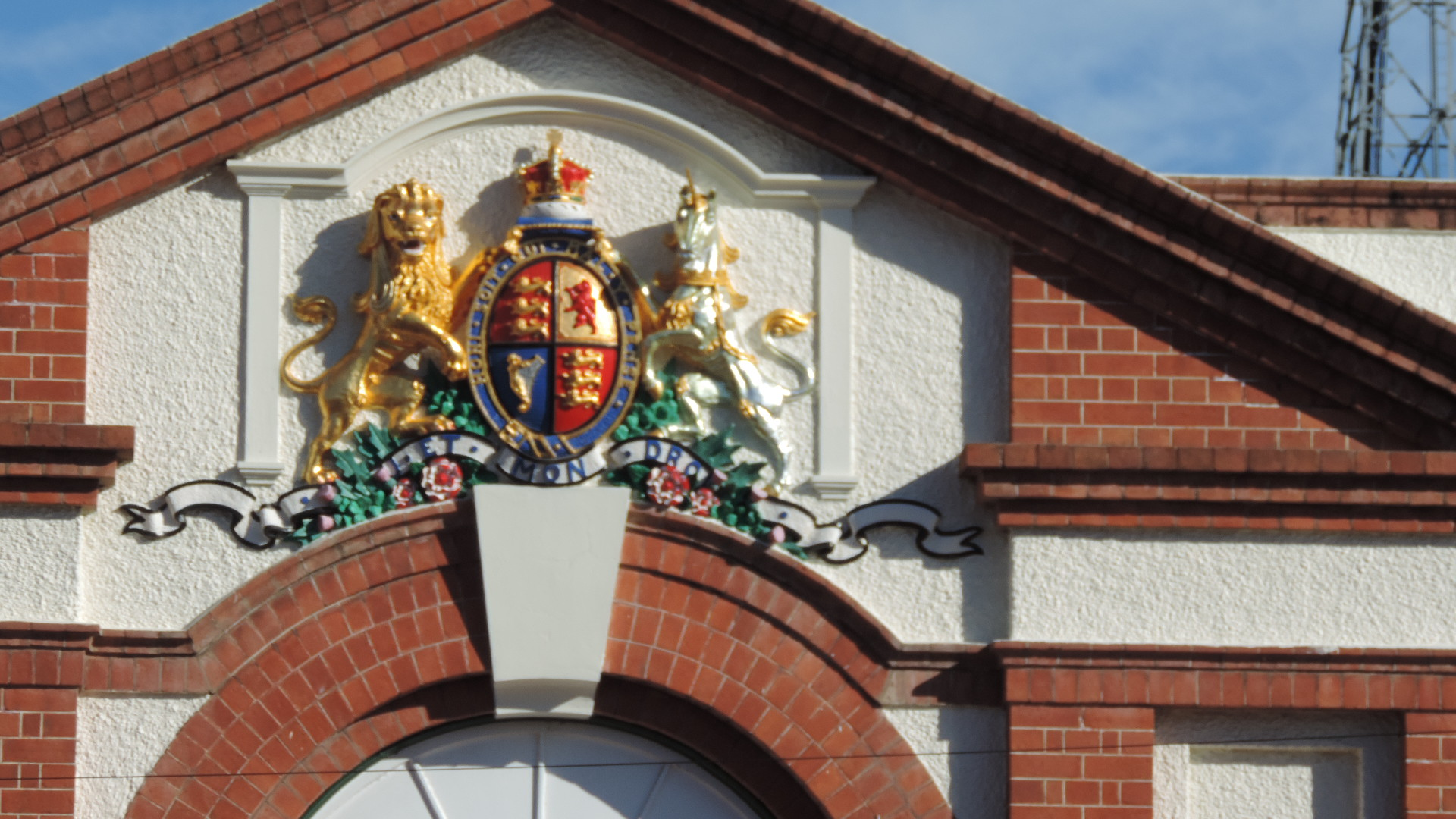 Coat of Arms, Stanthorpe Post Office, NW corner of Maryland and Railway Streets, Stanthorpe, 2015